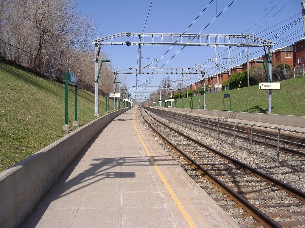 Canora AMT Station in Mount Royal, Quebec